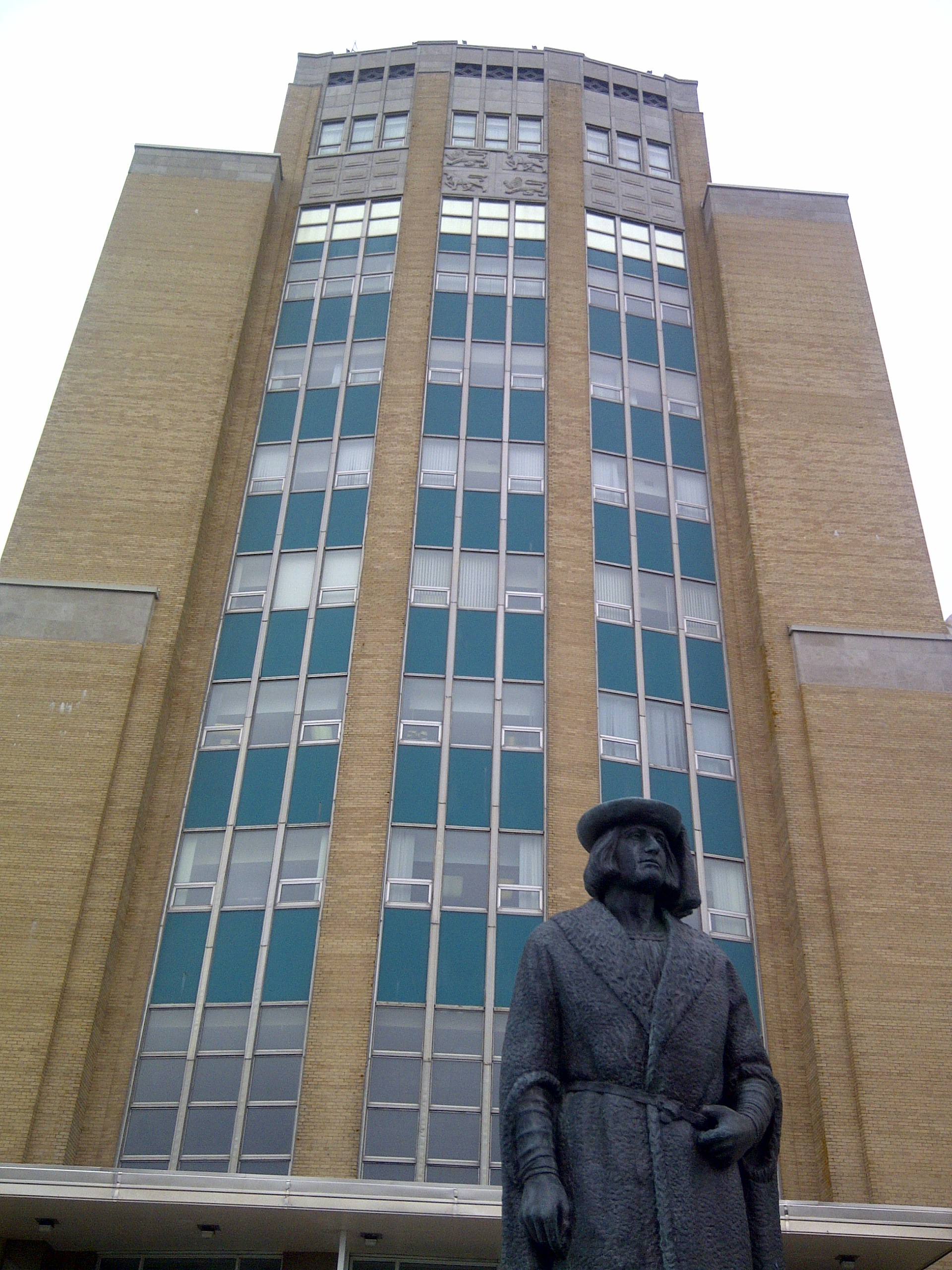 Statue of John Cabot in front of the Confederation Building which houses the provincial legislature. St. John's, Newfoundland and Labrador, Canada.